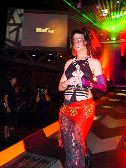 "The Voodoo Queen" Roxy Laveaux with a Christy Hemme voodoo doll @ TNA tapings in Orlando Florida. PHOTO BY ROB BEUKEMA